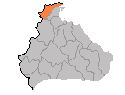 Chonnae county map